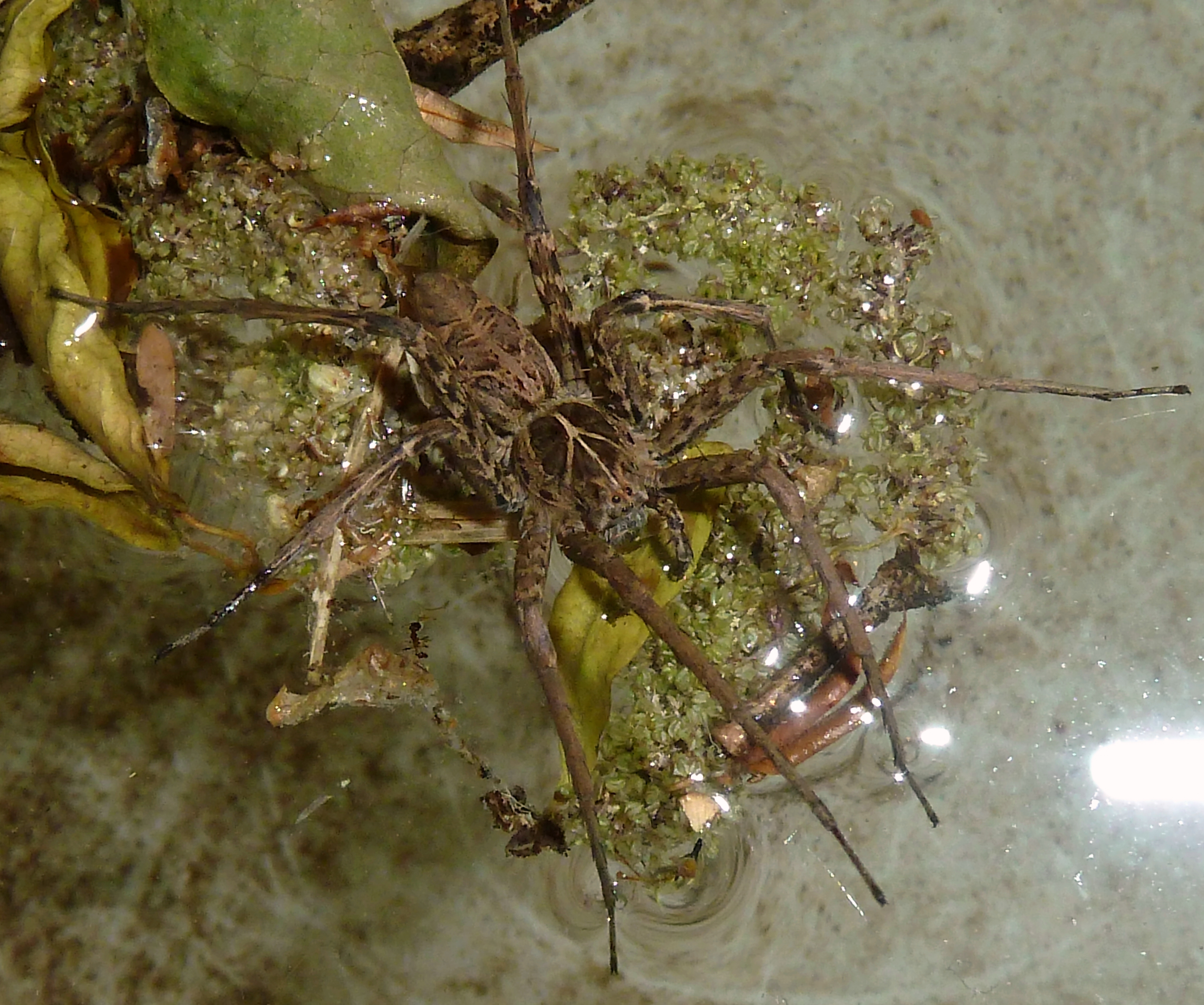 Cispius kimbius walking on plant detritus in a bucket of water, in suburban Pretoria, South Africa.